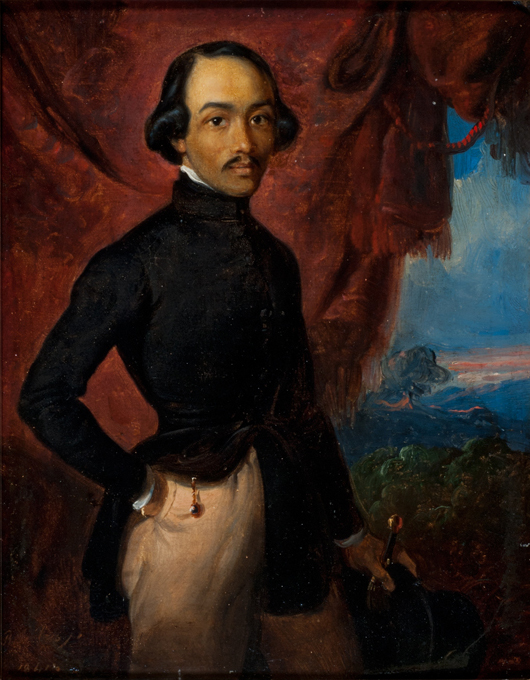 The only known self-portrait of the Indonesian artist Raden Saleh